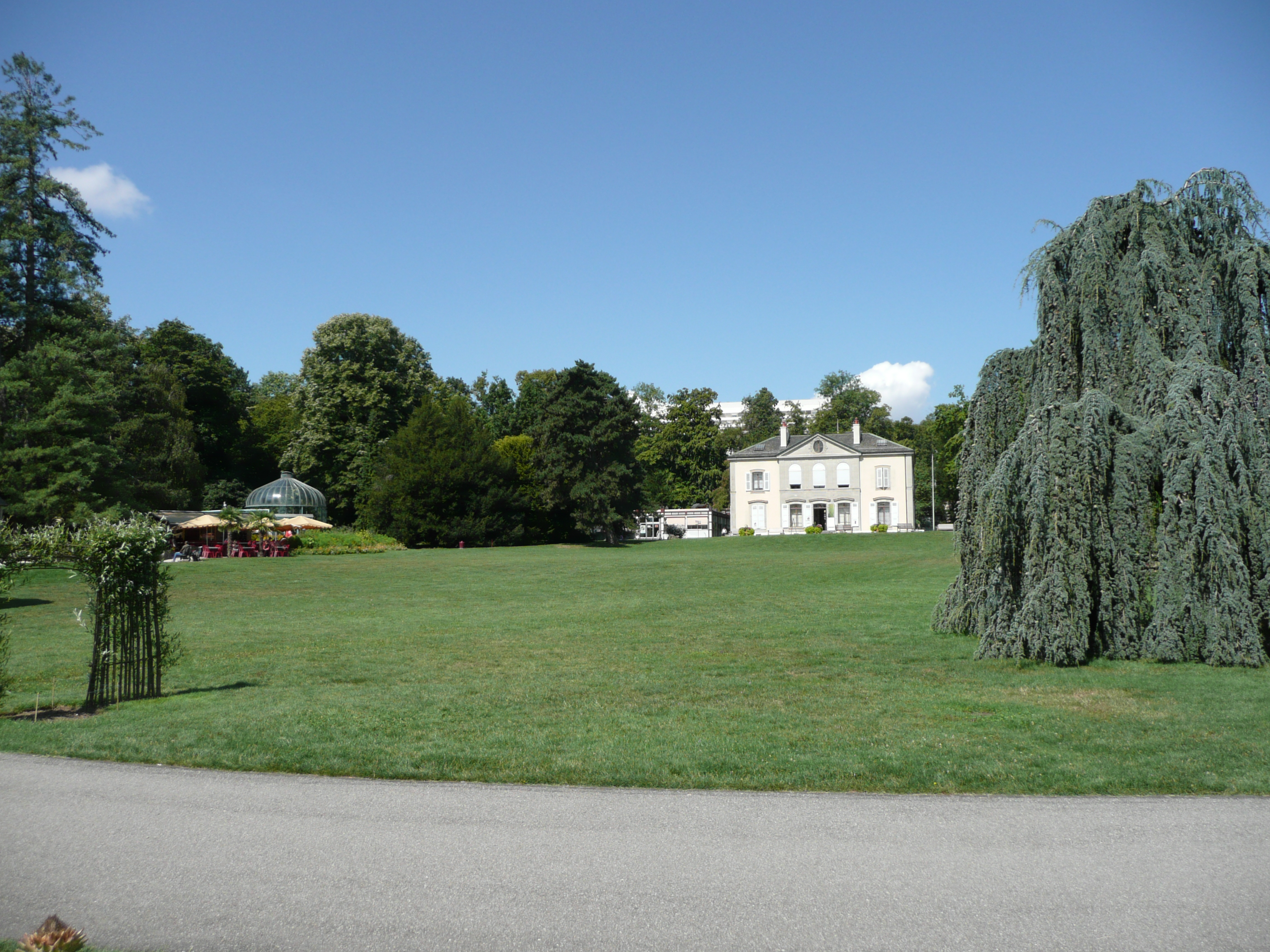 Villa Le Chêne in the Map: 46° 13' 32" N 6° 8' 48" E